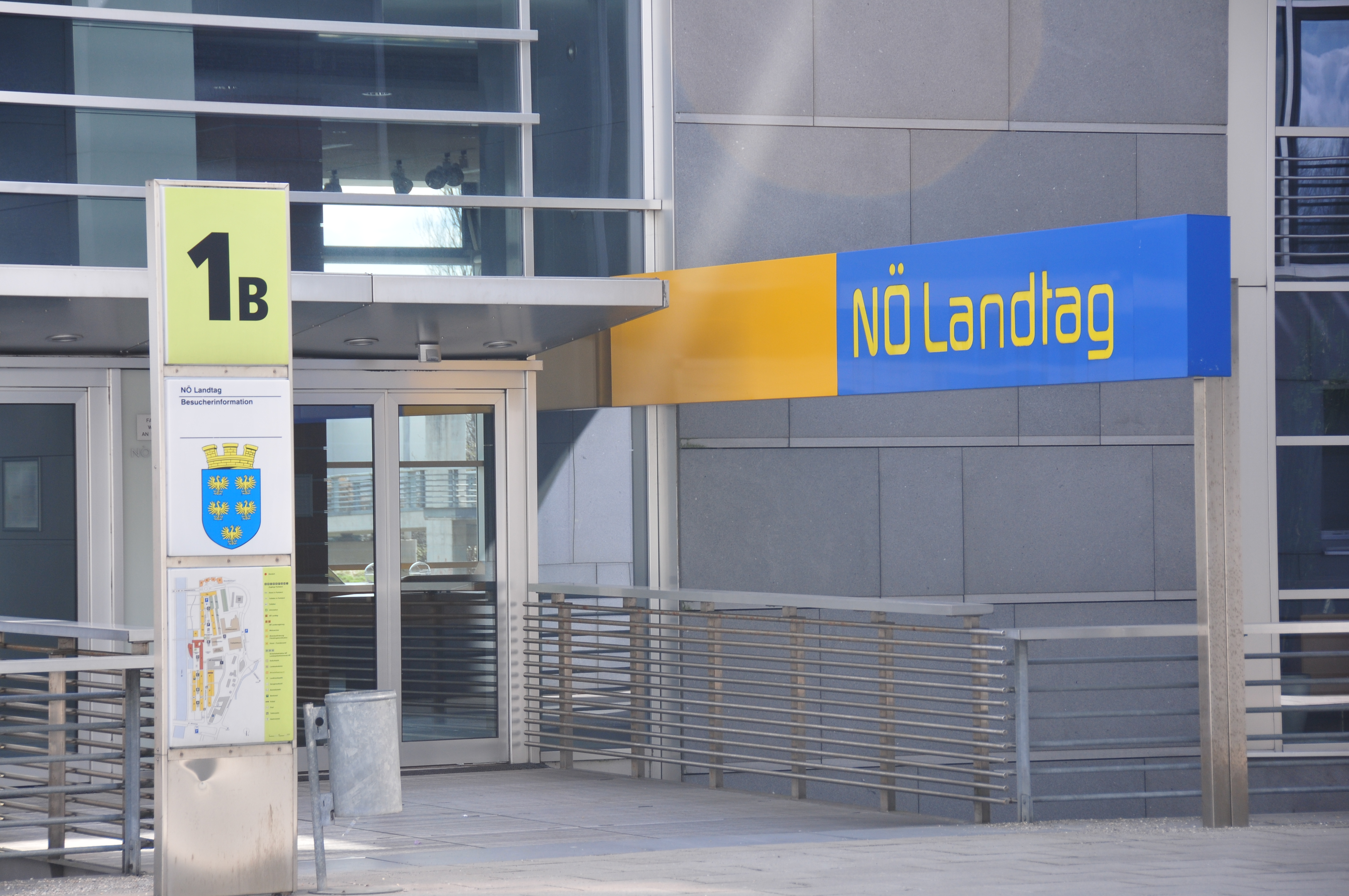 St. Pölten, Austria, Landhausviertel Fotowanderung St. Pölten 13. April 2013 in St. Pölten, Niederösterreich 50mm • Allgemeines • Bahnhof • Domplatz • Fahrräder • Landhausviertel • Rathausplatz